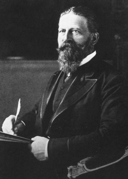 Portrait of future Frederick III of Prussia in 1880